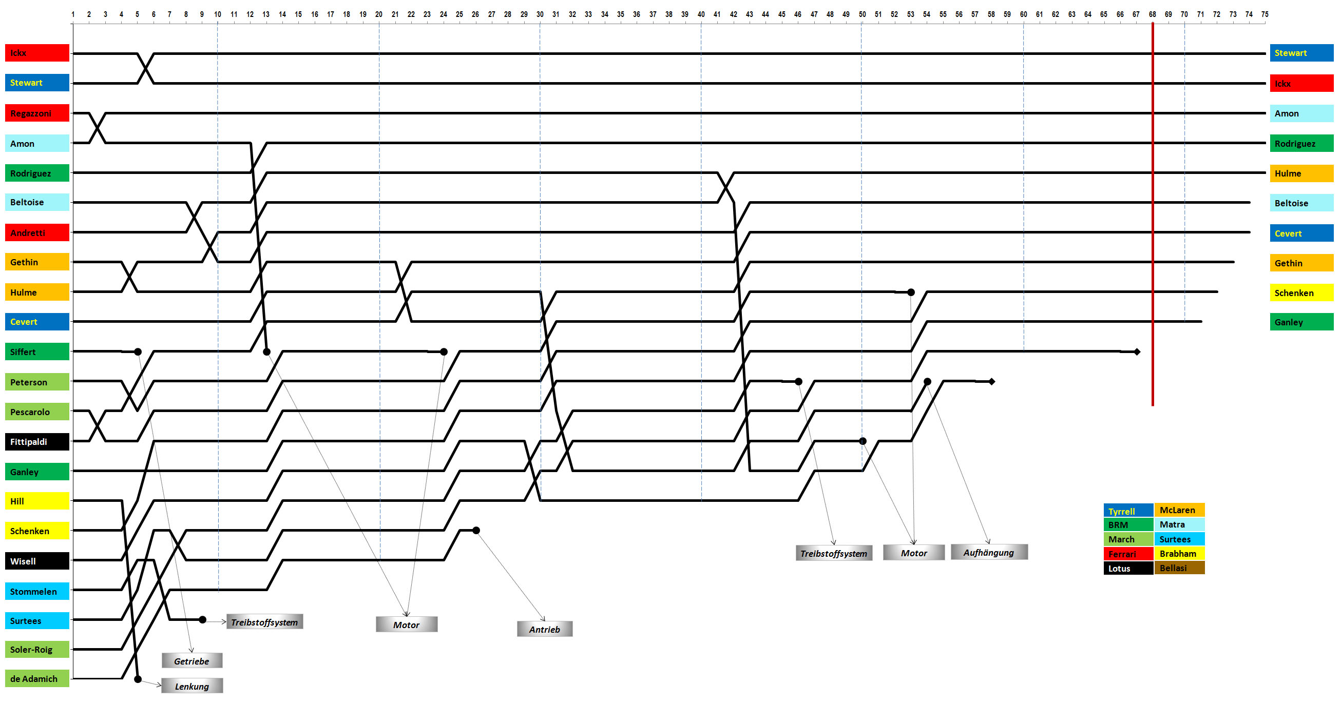 Round Table Spanish Grand prix 1971